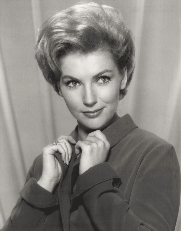 Joan O'Brien in It Happened at the World's Fair aka Take Me to the Fair (work's title), released in 1963 - publicity still (original image cropped : see source)